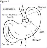 Author: U.S. National Institute of Diabetes and Digestive and Kidney Disease (NIDDK), National Institutes of Health (NIH) Source URL: Copyright tag: Why? Because it's from an NIH department. Category:Obesity images